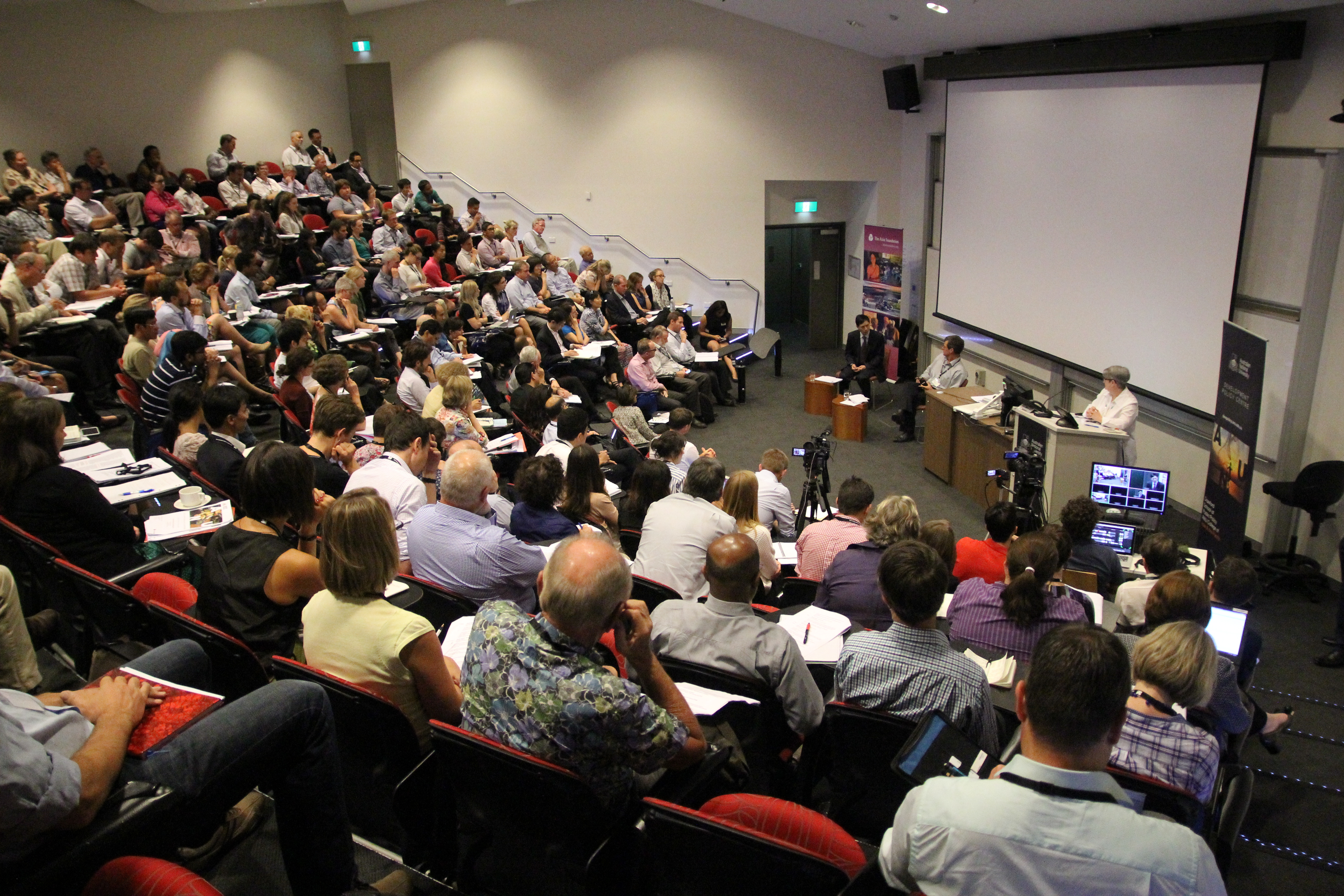 Australian Aid 2015